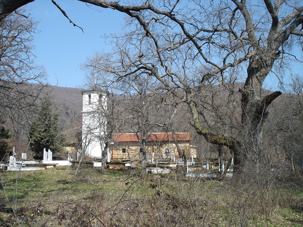 The church in Rilevo, Macedonia